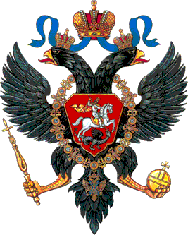 Coat of arms of Russia in early XVIII century